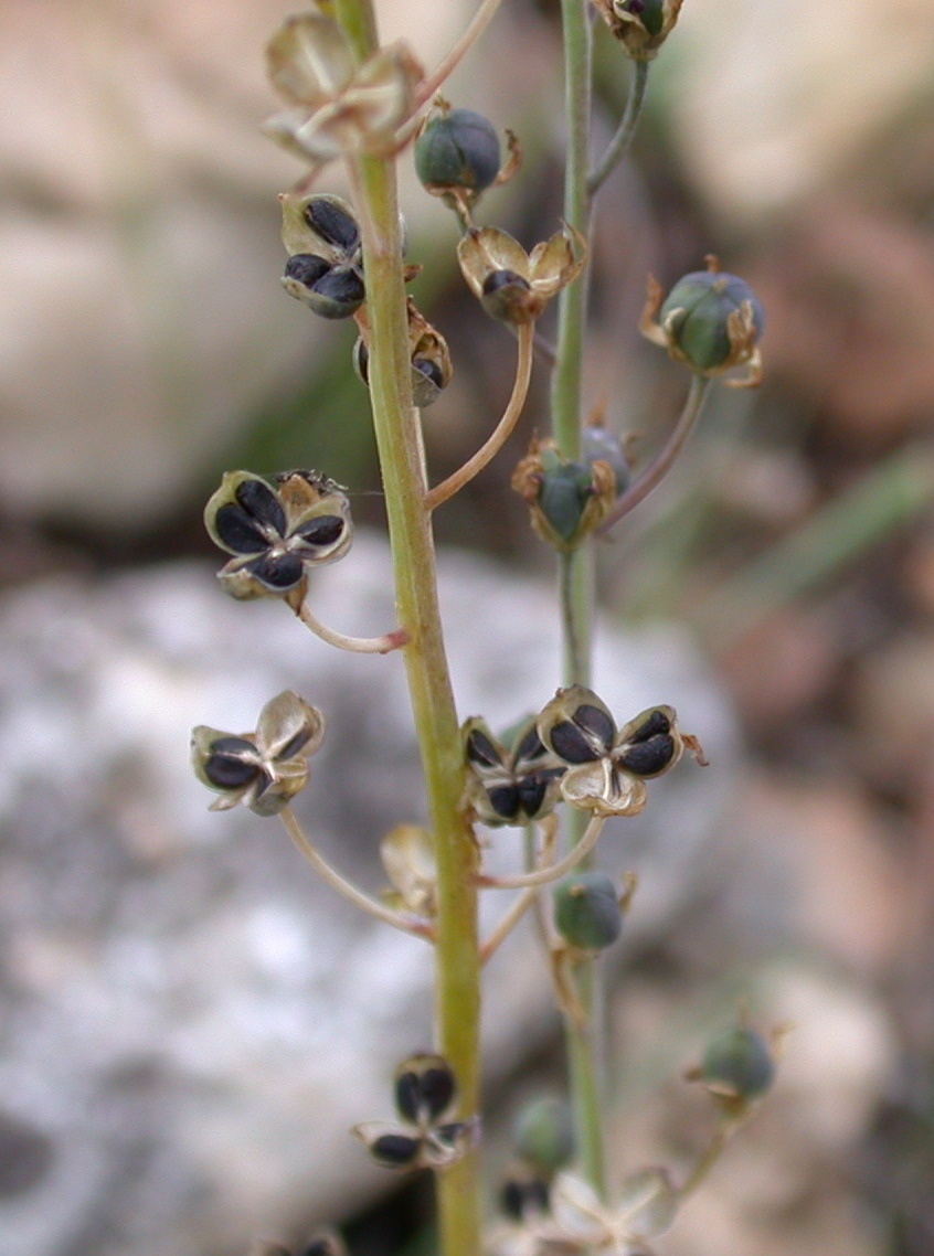 Scilla autumnalis, open capsules with seeds, Mount Carmel, Israel, November 20, 2008.